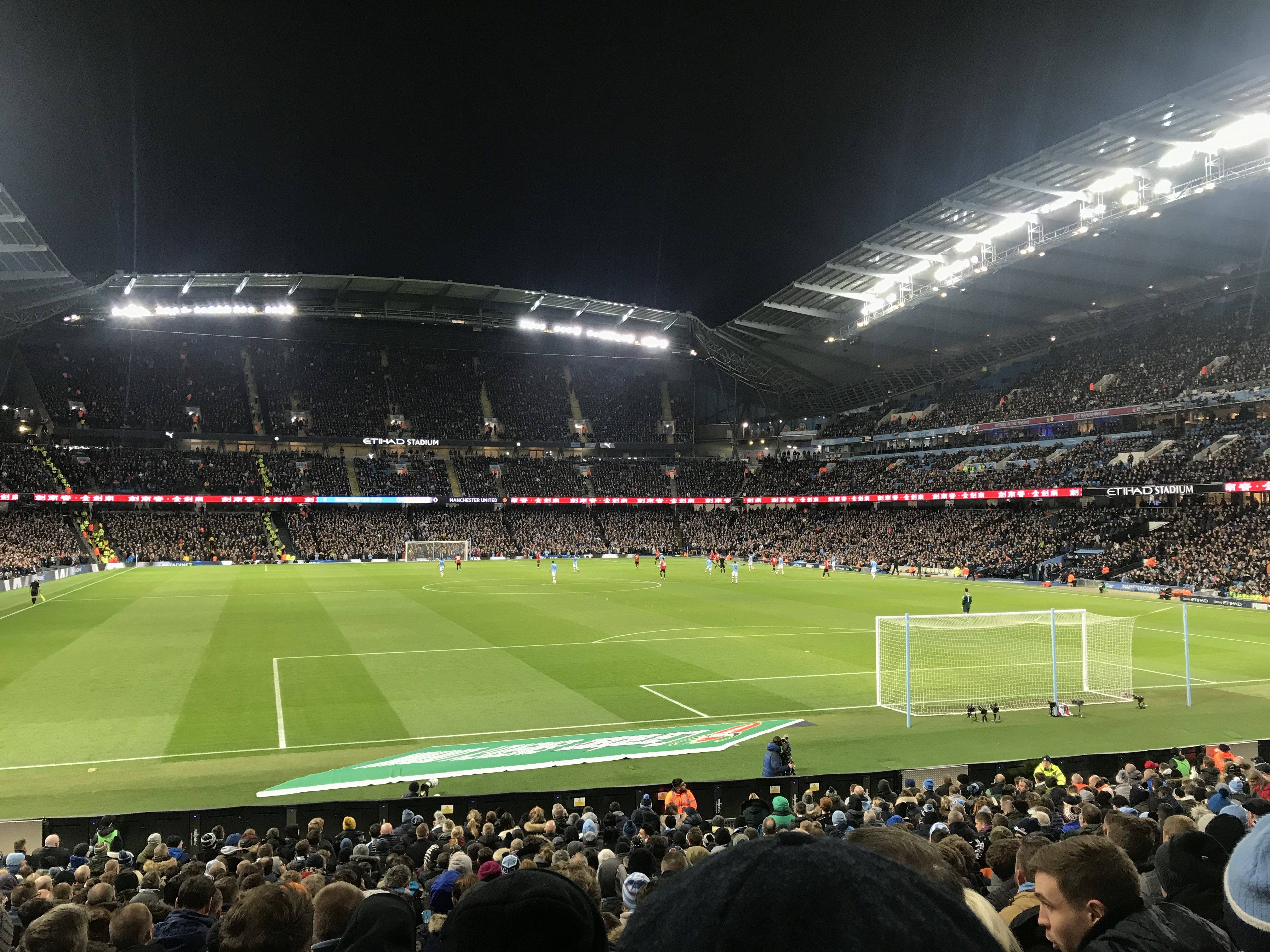 Manchester City v Manchester United in the Carabao Cup semi-final second leg, January 2020